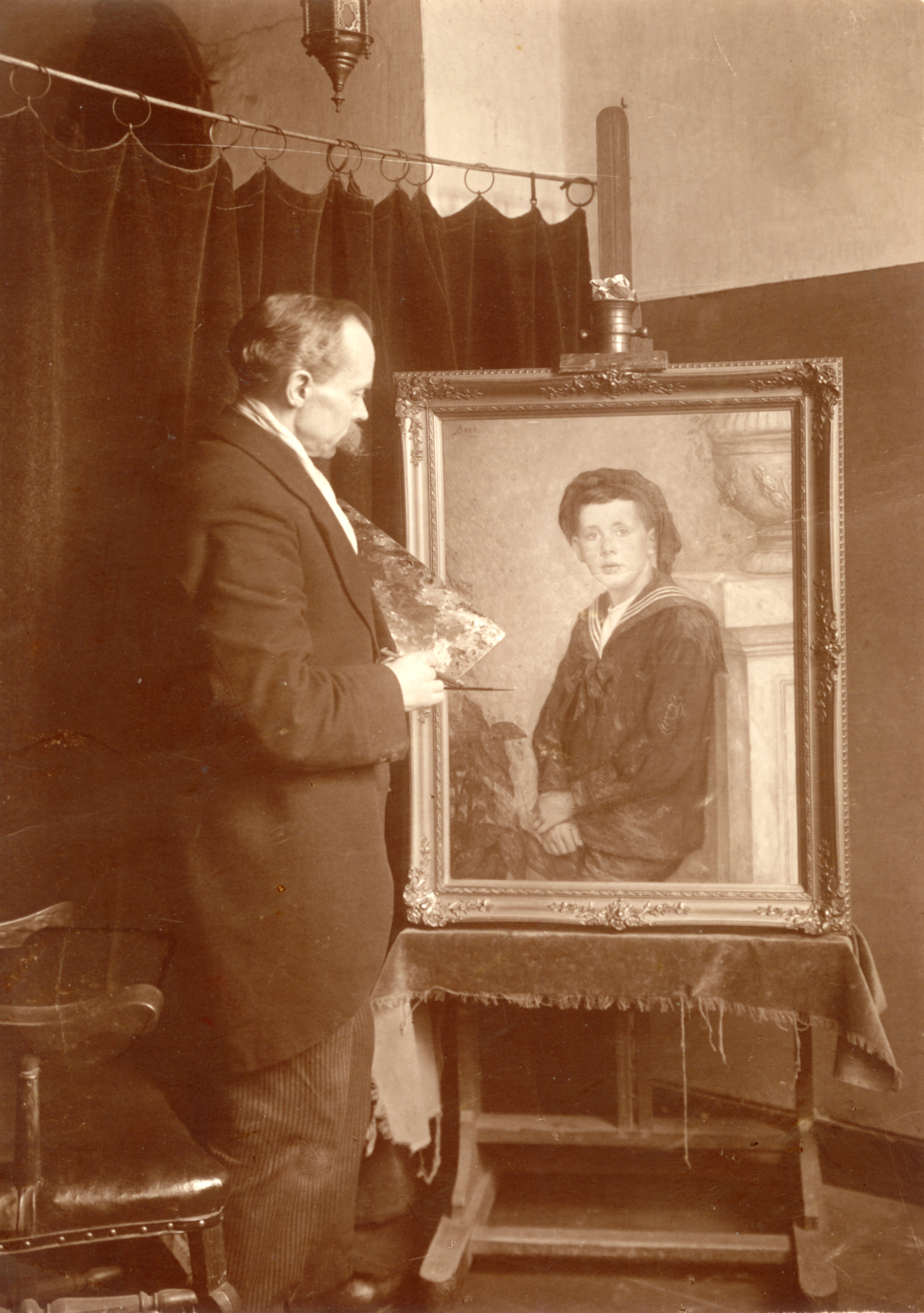 Dutch painter/photographer Louis Krans